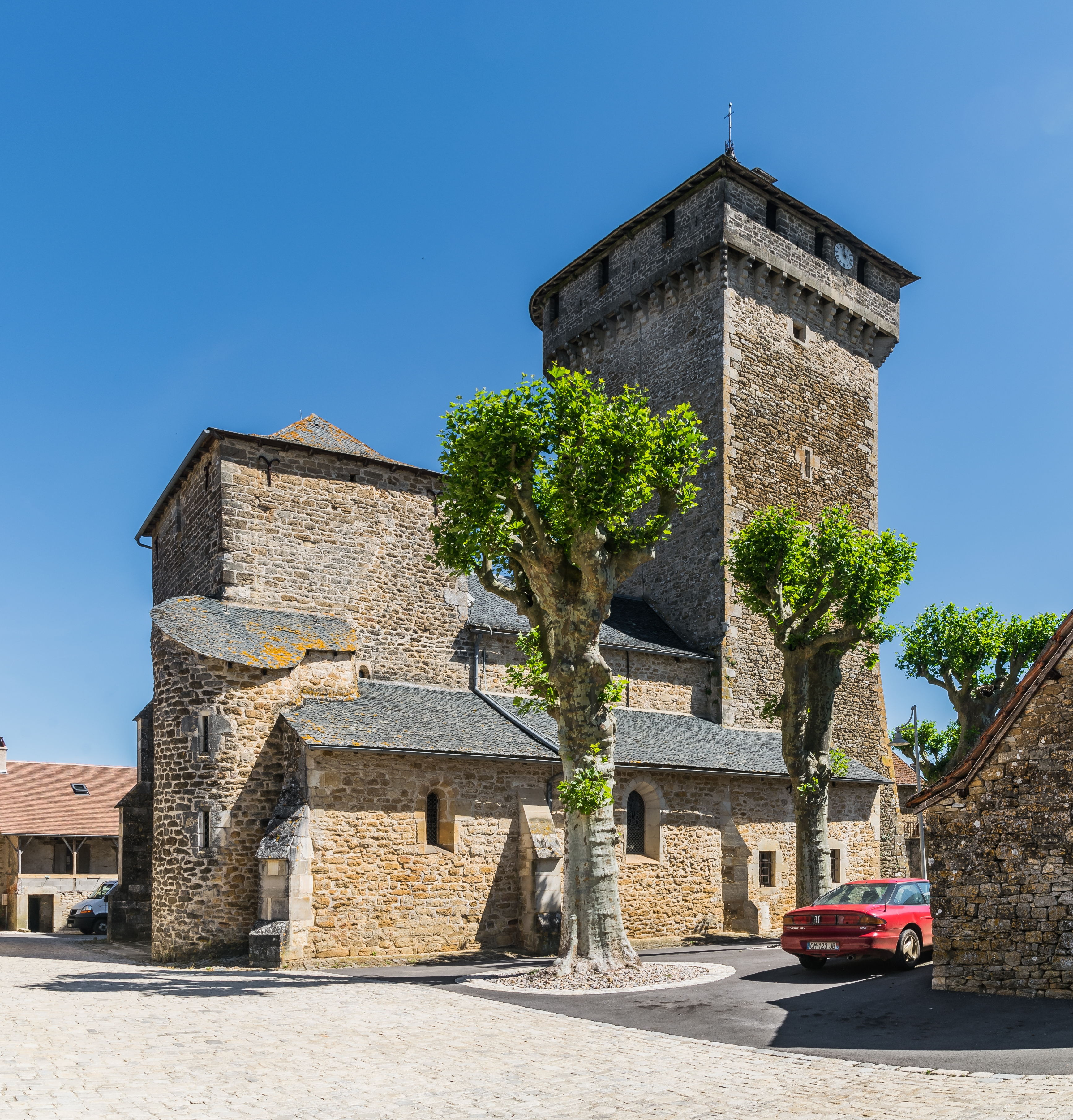 Church of Sainte-Croix, Aveyron, France NOTE: This image is a panorama consisting of 2 frames that were merged or stitched in Adobe Lightroom. As a result, this image necessarily underwent some form of digital manipulation. These manipulations may include blending, blurring, cloning, and colour and perspective adjustments. As a result of these adjustments, the image content may be slightly different from reality at the points where multiple images were combined. This manipulation is often required due to lens, perspective, and parallax distortions.